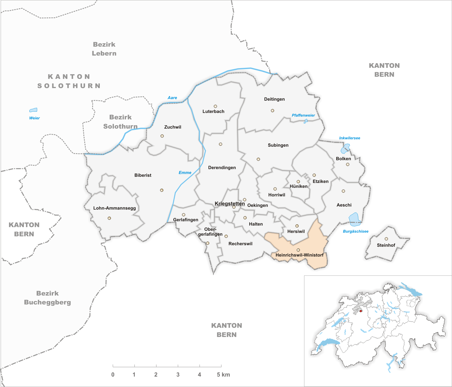 Municipality Heinrichswil-Winistorf